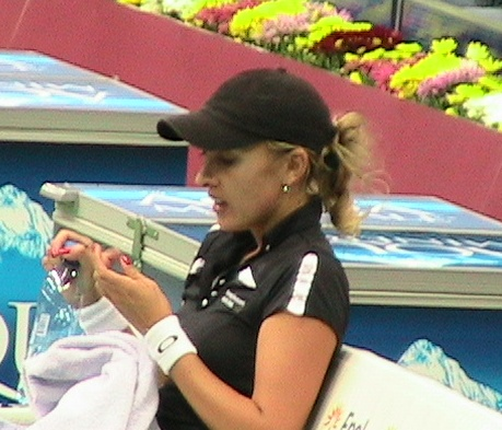 Anastasia Rodionova. Kremlin Cup 2009